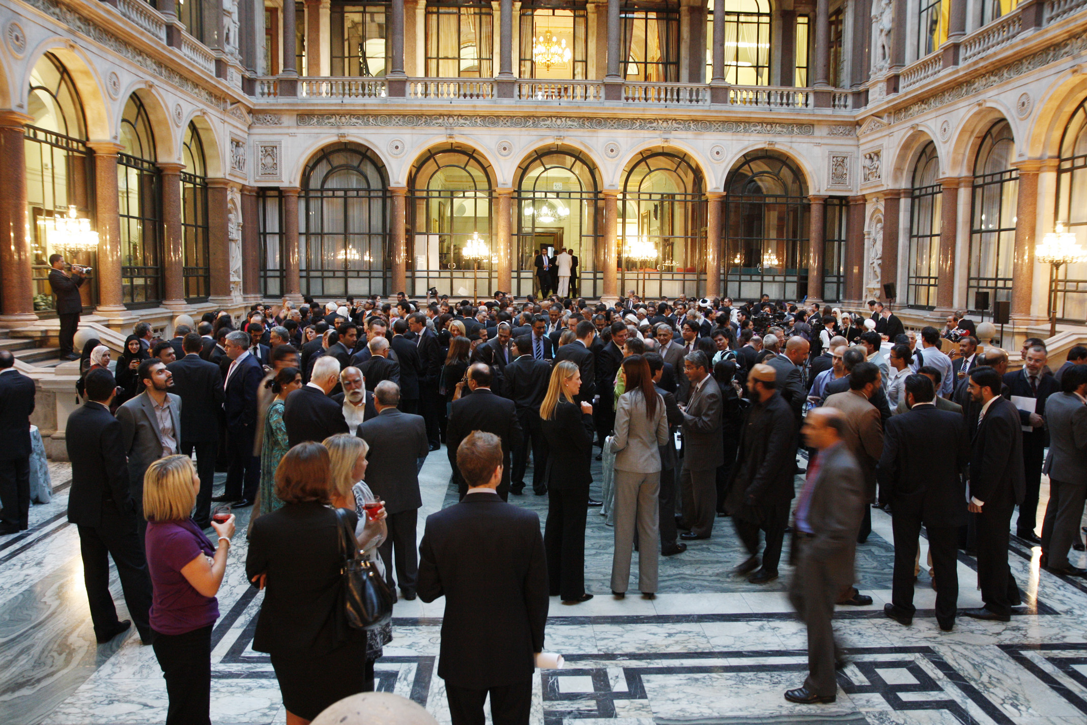 2010 Eid-ul-Fitr reception in the Durbar Court of the Foreign & Commonwealth Office in London, 21 September 2010.